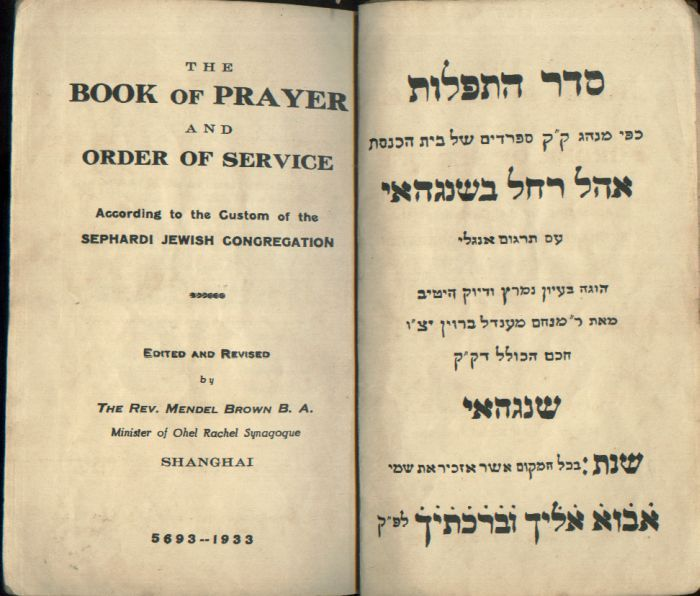 Sidur from Shanghai , 1933